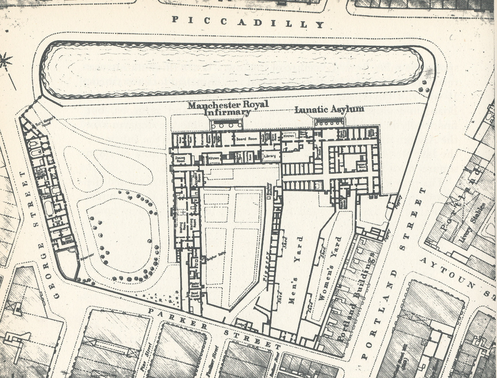 Extract from map of Manchester published 1850